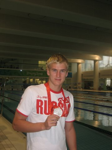 Polishchuk Mikhail